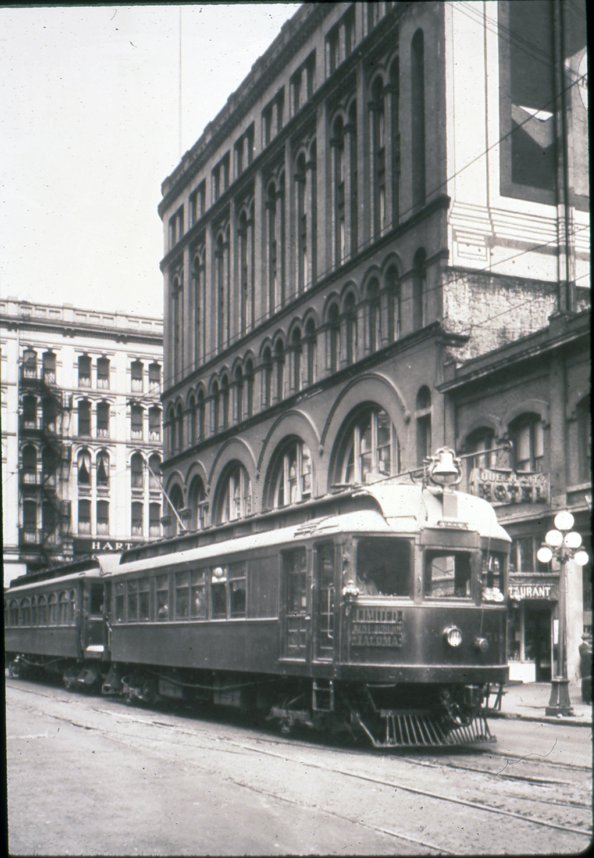 Interurban on Occidental Way South, Seattle, Washington circa 1920s. Hotel Seattle (demolished 1961) in background, the Seattle National Bank Building / Pacific Block / Smith Tower Annex now known as the Interurban Building at right.